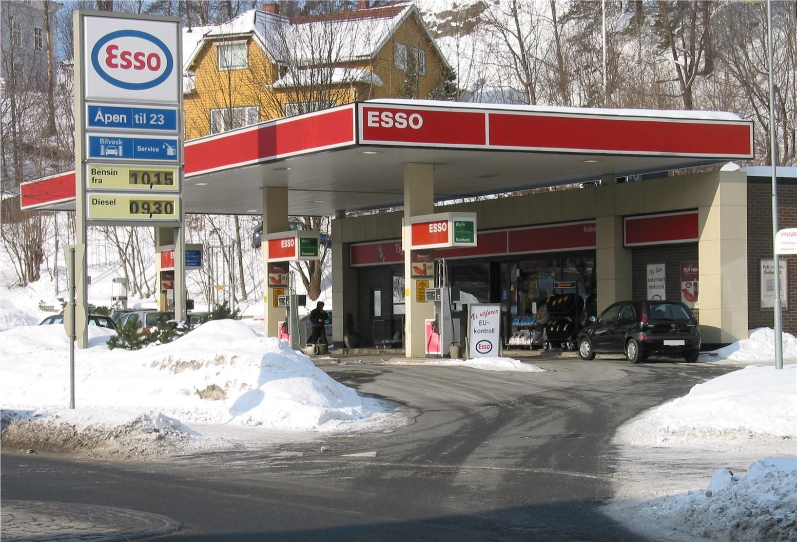 An Esso gas station in Stabekk, Norway.